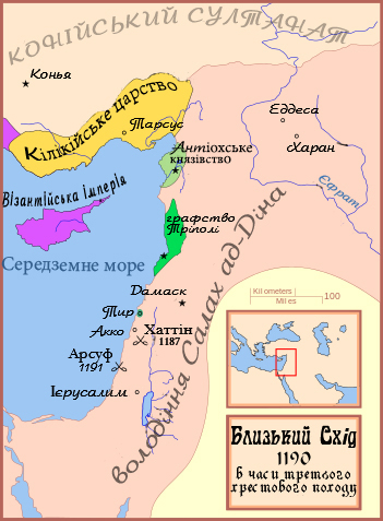 Map Crusader states-ukraine